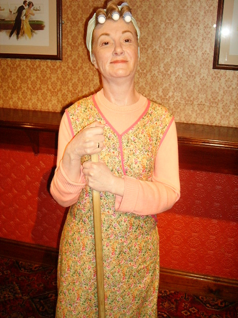 Hilda Ogden cleaning inside the Rovers Return in Madame Tussauds, Blackpool